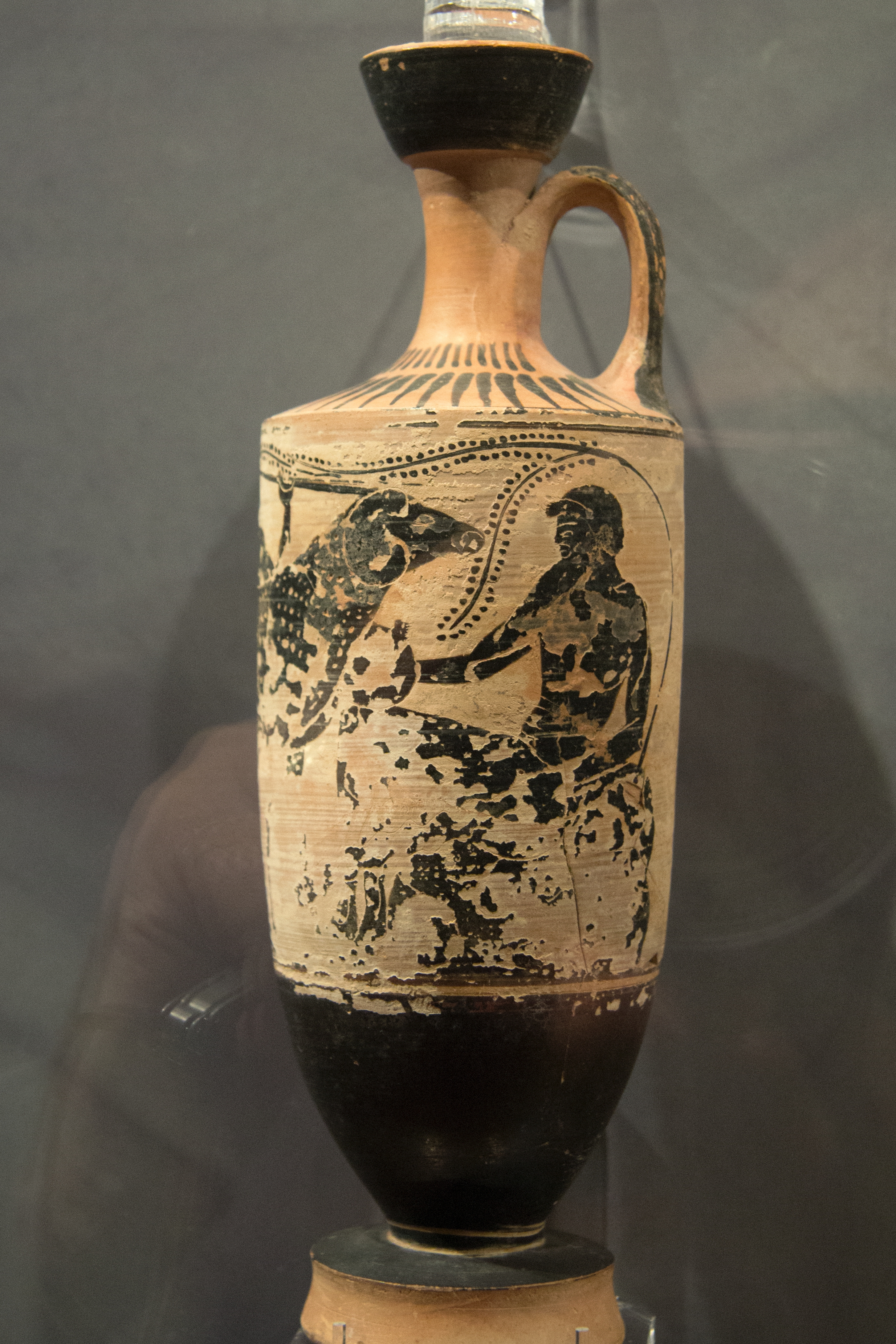 Attic black-figure lekythos showing Odysseus escaping from Polyphemus. Attributes to the Theseus Painter. About 500 BC, clay. Ashmolean Museum, Oxford, AN 1934.372.